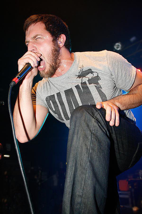 red chord